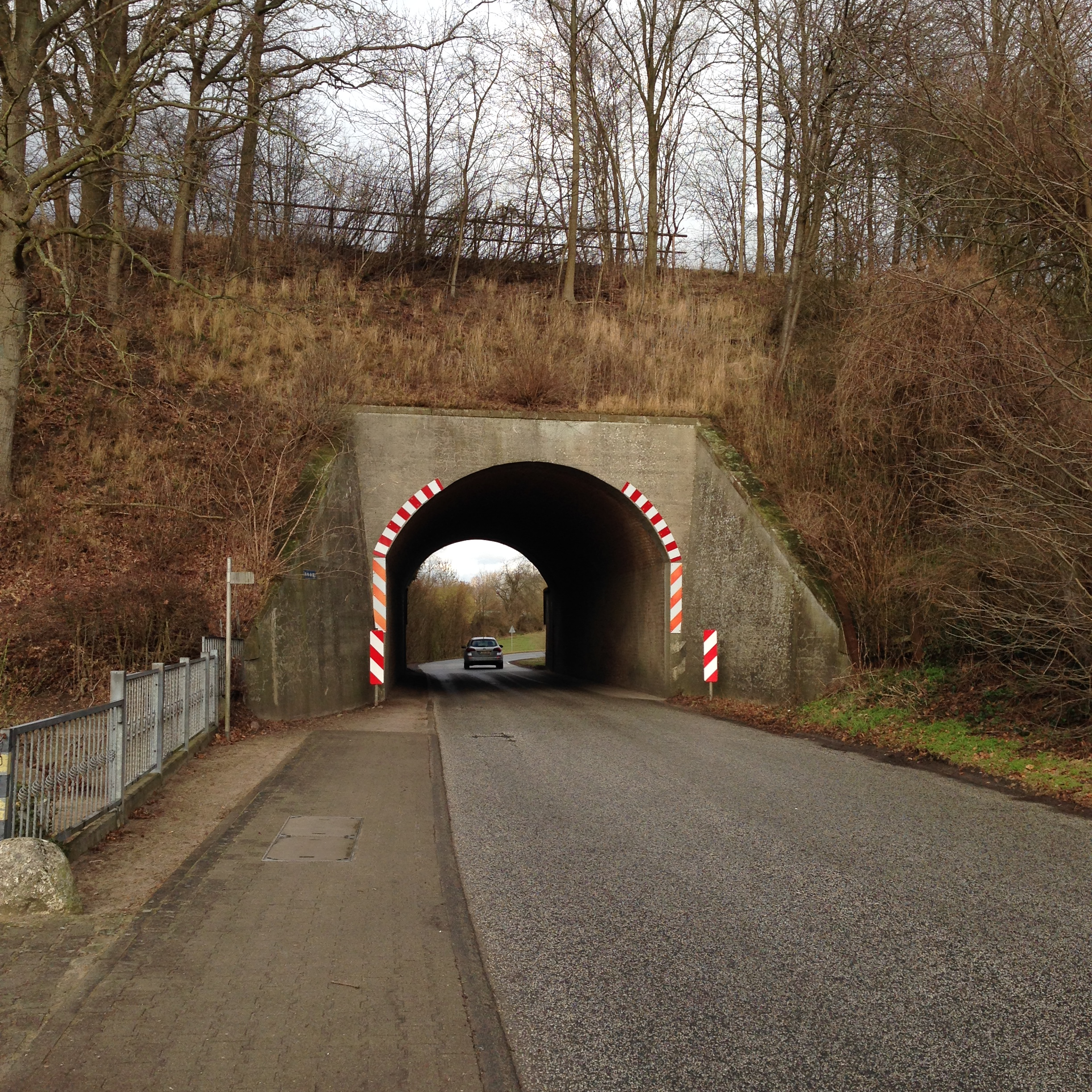 Bridge of der former Kaiserbahn (Hagenow Land-Bad Oldesloe railway line) in Berkenthin, district Herzogtum Lauenburg, Schleswig-Holstein, Germany